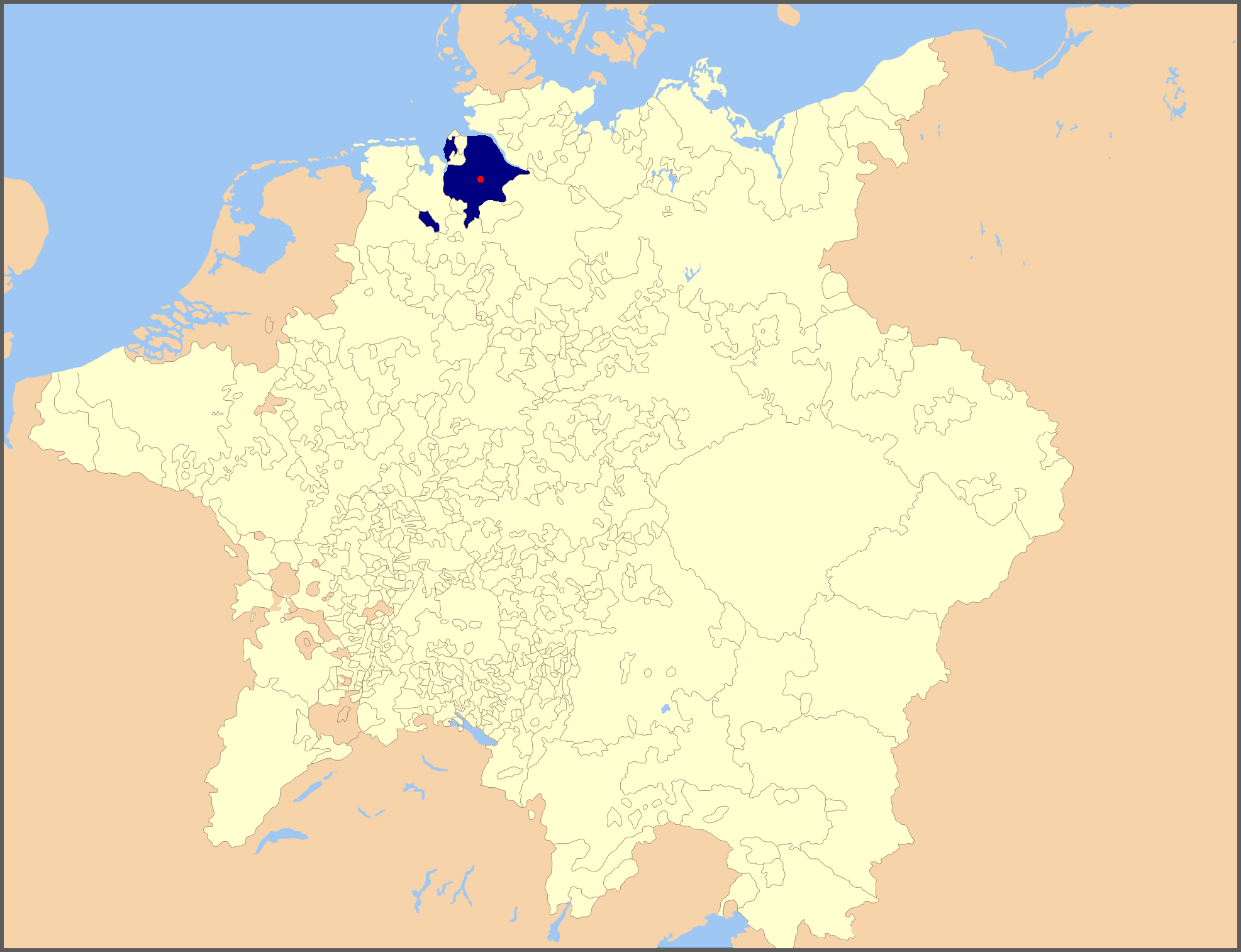 Map of the Holy Roman Empire, 1648, with the territories formerly belonging to the prince-archbishop of Bremen highlighted